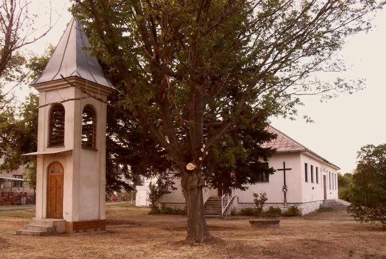 Albinov Mary Mother of God Chapel, Borough of Albinov, Town of Sečovce